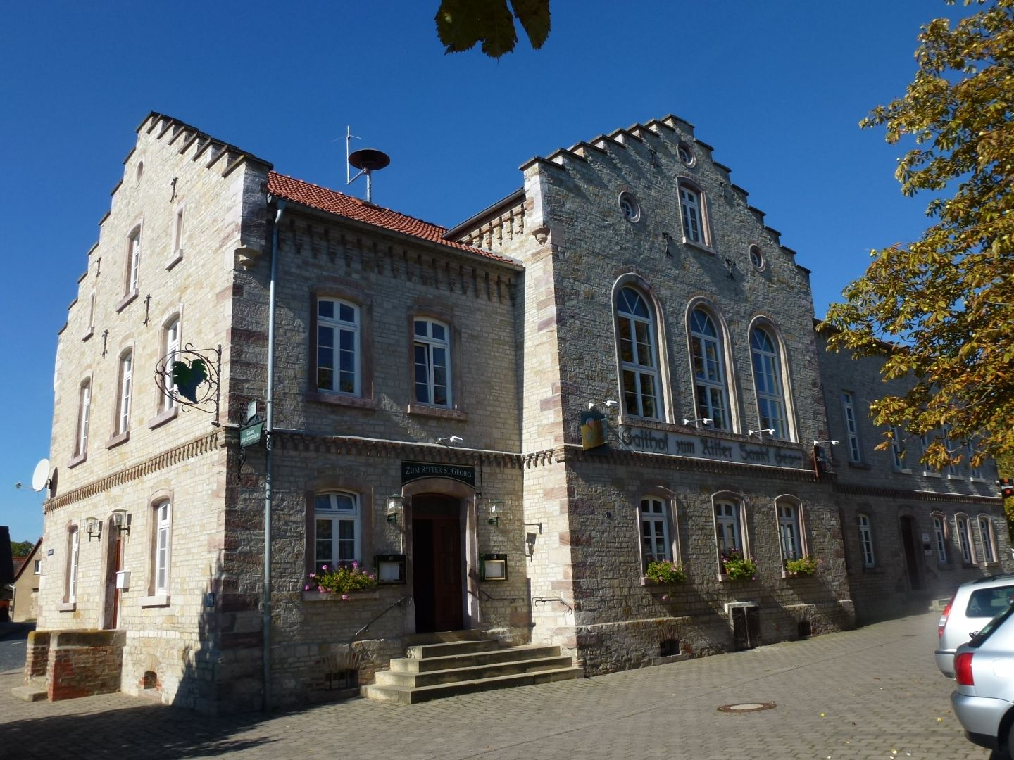 Gasthof in Steigra